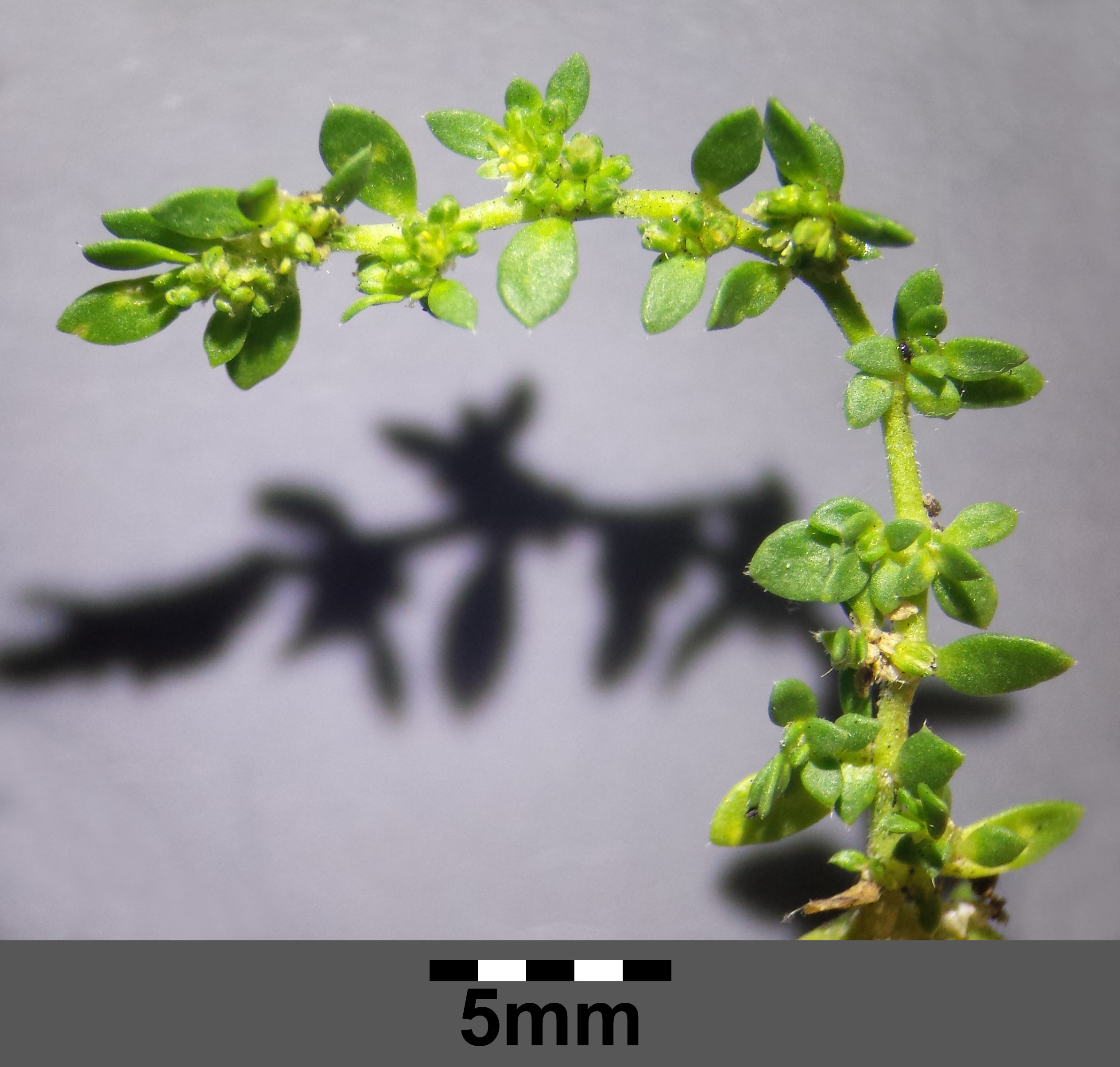 Inflorescence/Infructescence Taxonym: Herniaria glabra ss Fischer et al. EfÖLS 2008 ISBN 978-3-85474-187-9 Location: Unterschleißheim, district München, Bavaria, Germany - ca. 473 m a.s.l. Habitat: gap in road surface